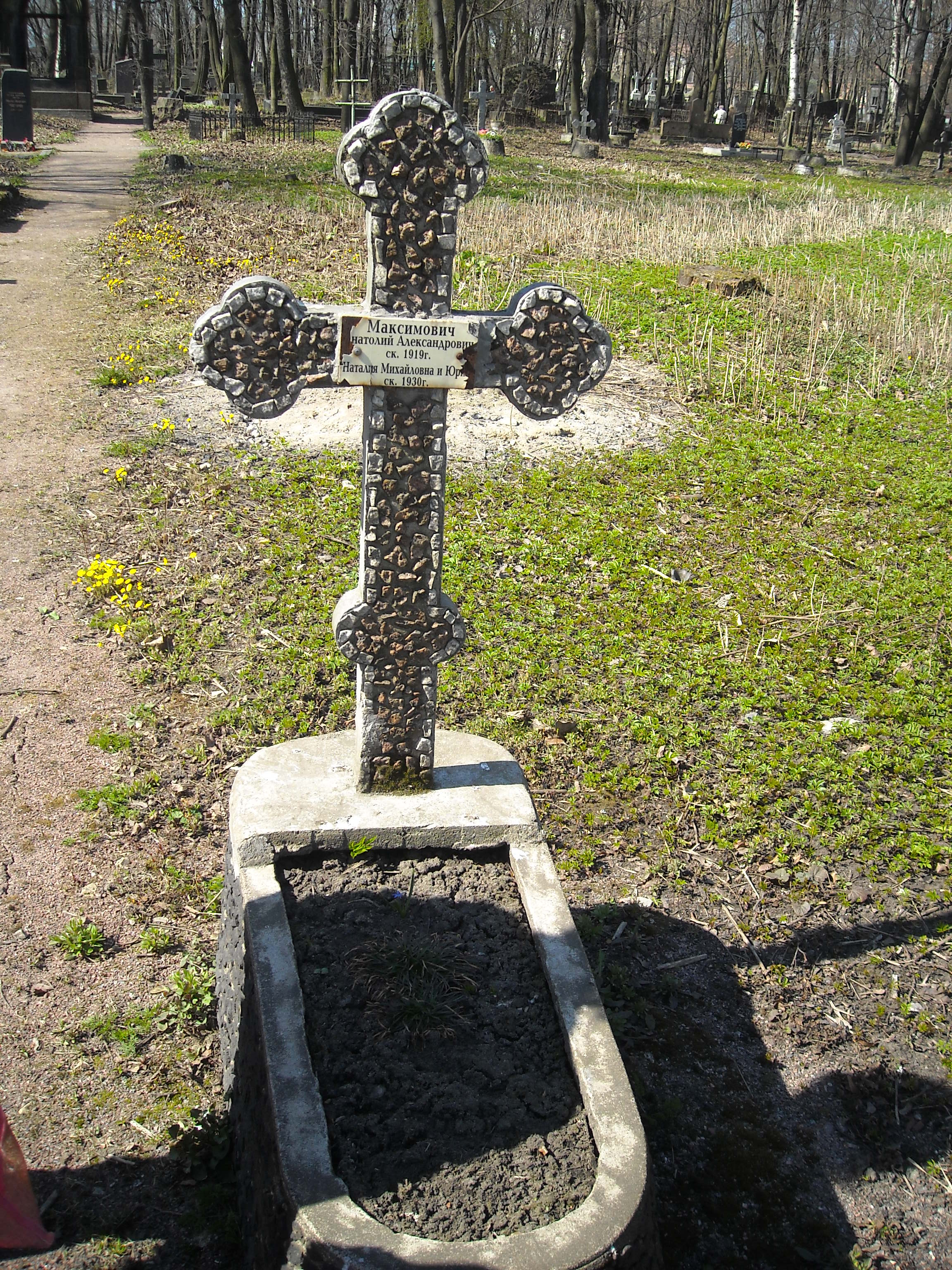 This is a grave of a notable Russian general of the imperial army, Anatoly Maksimovich, located at Novodevichye Cemetery in St Petersburg, Russia